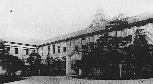 Chiba Normal School